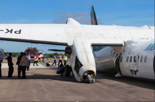 PK-MZO being examined by local authorities after a serious crash in Kupang